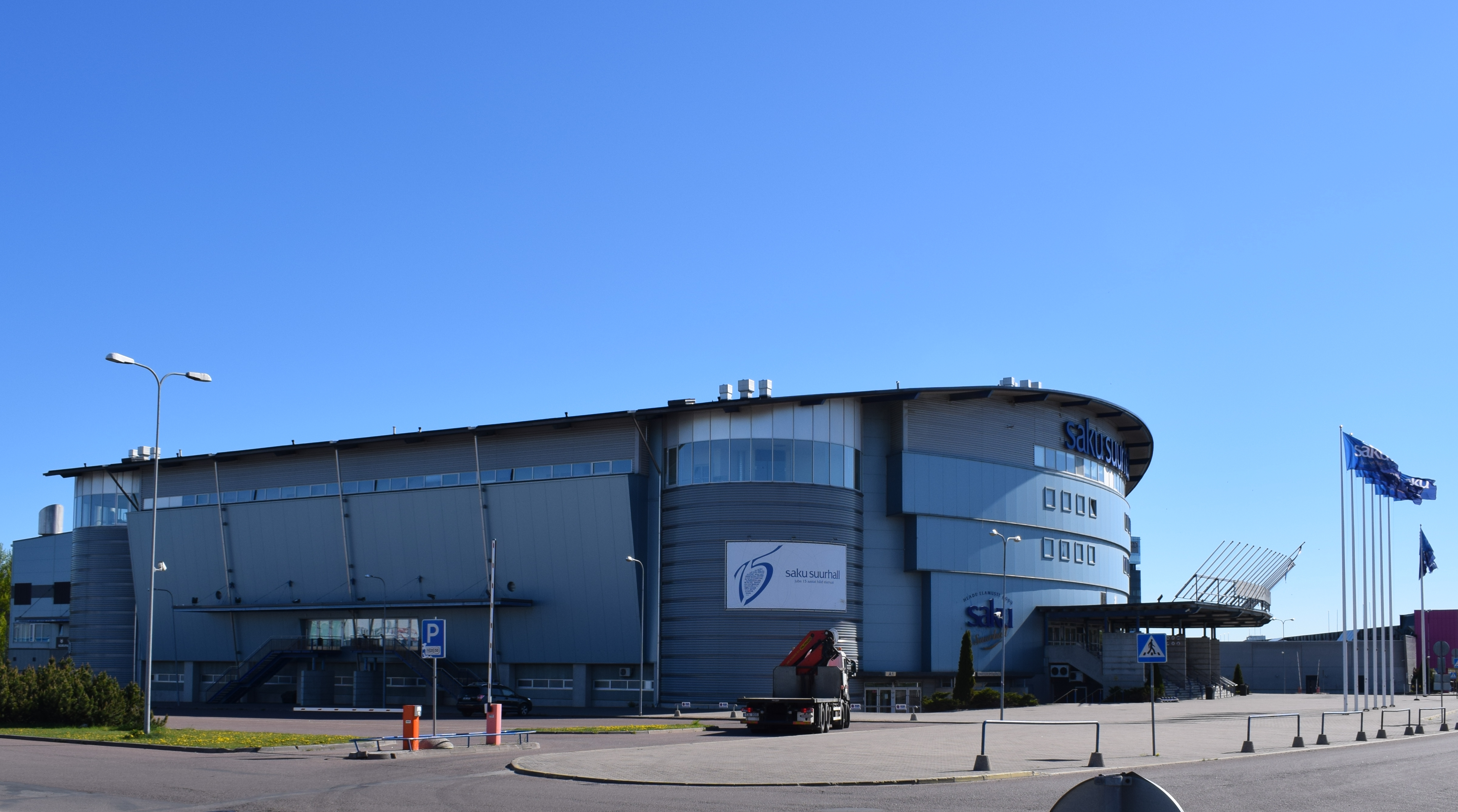 Tallinn